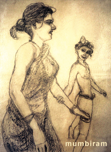 Foto of the original Charcoal by Artist Mumbiram of India. Created in India and inspired by beautiful dark muses, who are really the forgotten beauties of India. It is in the prema vivarta mood.